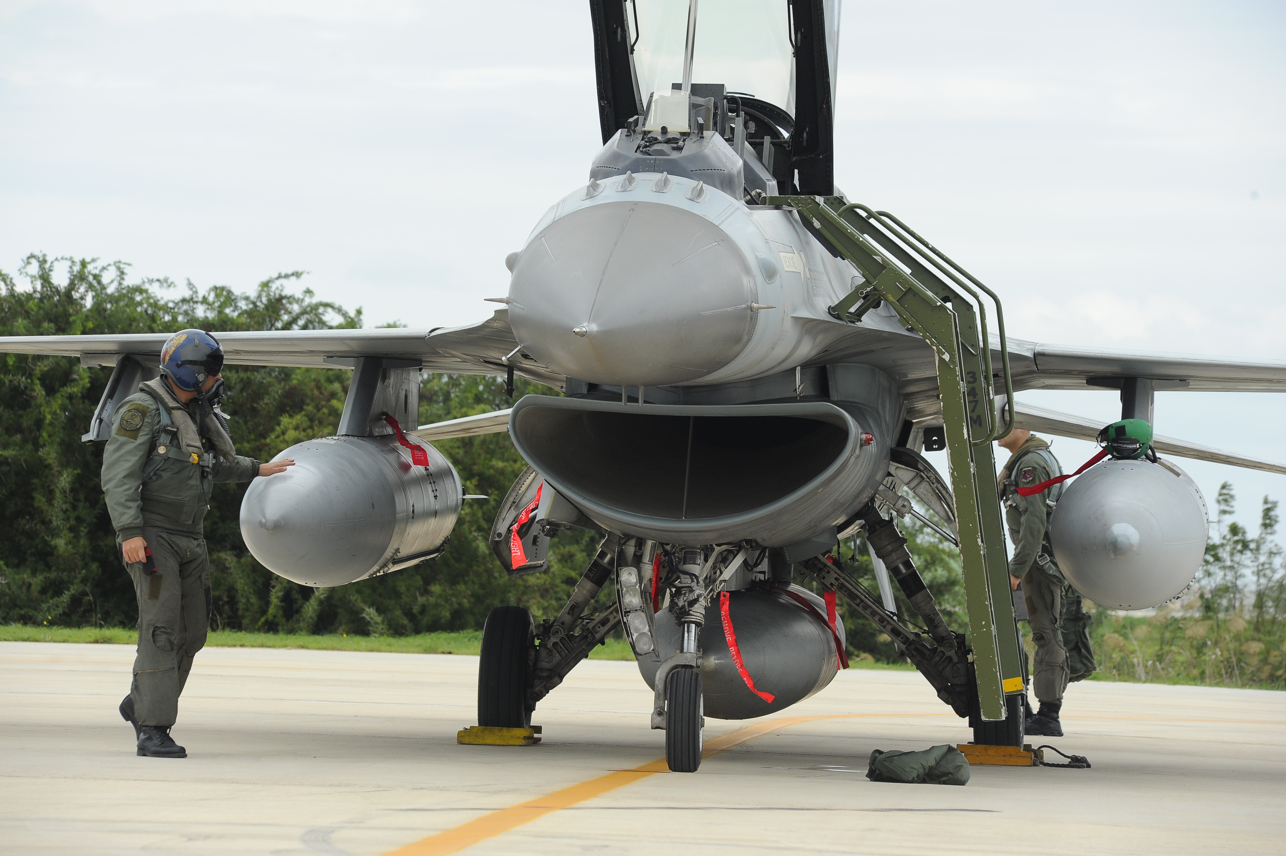 A Greek Air Force pilot in Trapani, Italy conducting a walk around his F-16 upon return from a Composite Air Operations (COMAO) mission on October 22, 2015 during Trident Juncture 15. (Photo: Antonio Stellato)